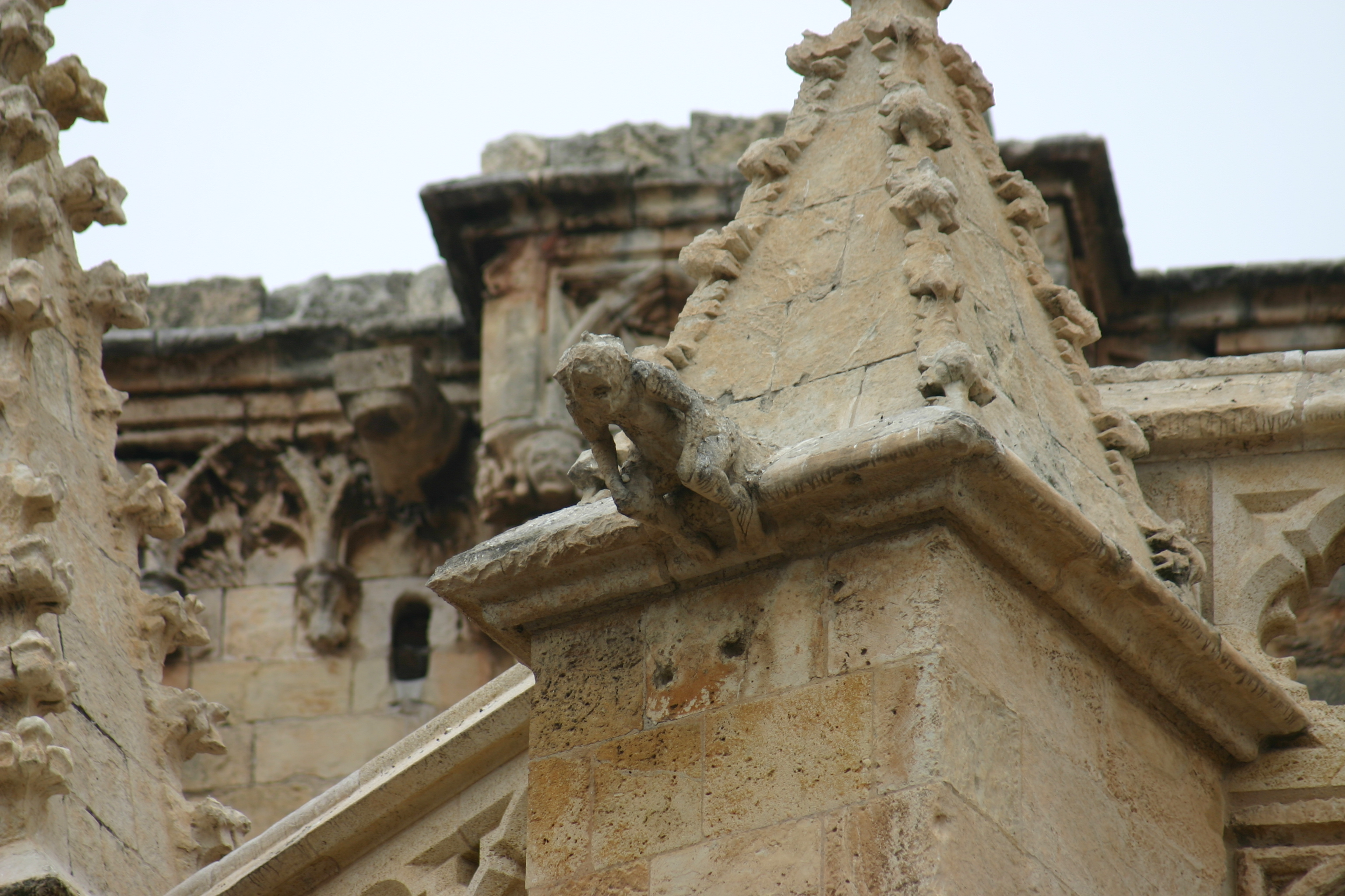 Gargoyle. Cathedral of Tarragona, Catalonia (Spain)